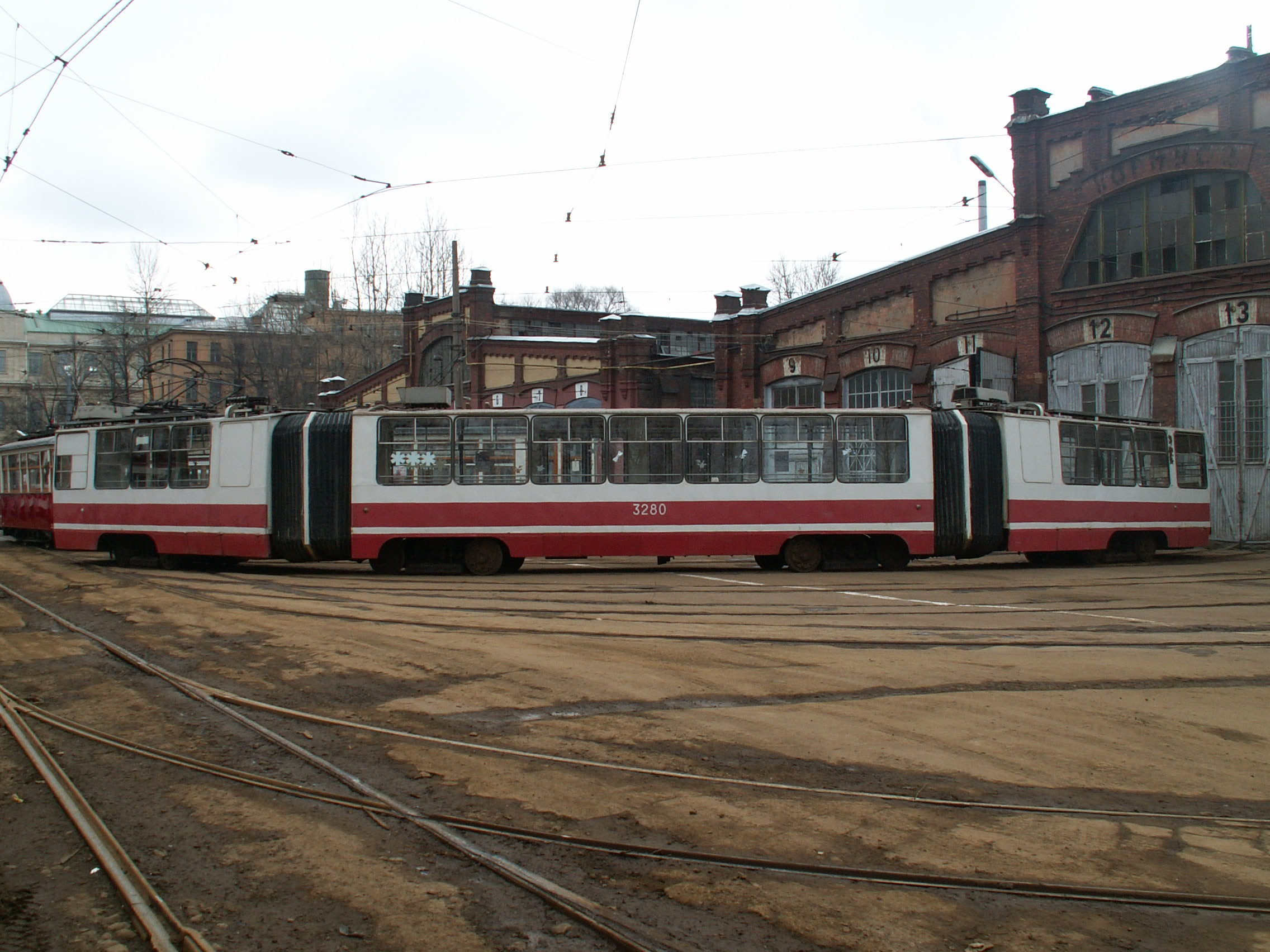 Tram LVS-93 in St. Petersburg